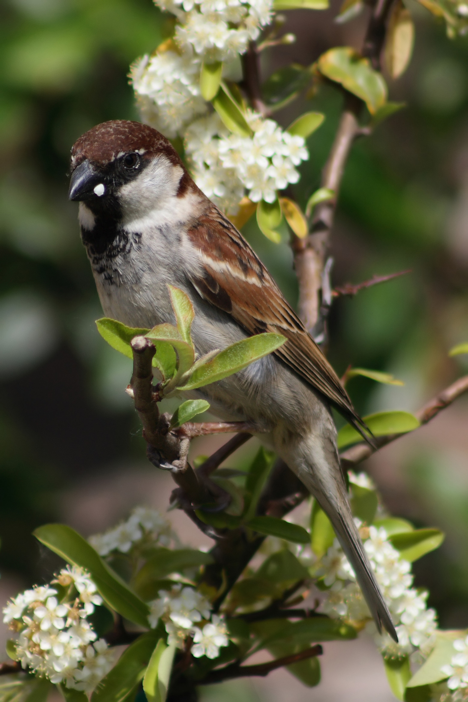 Male Italian Sparrow (Passer italiae). Montecatini Terme, Tuscany.